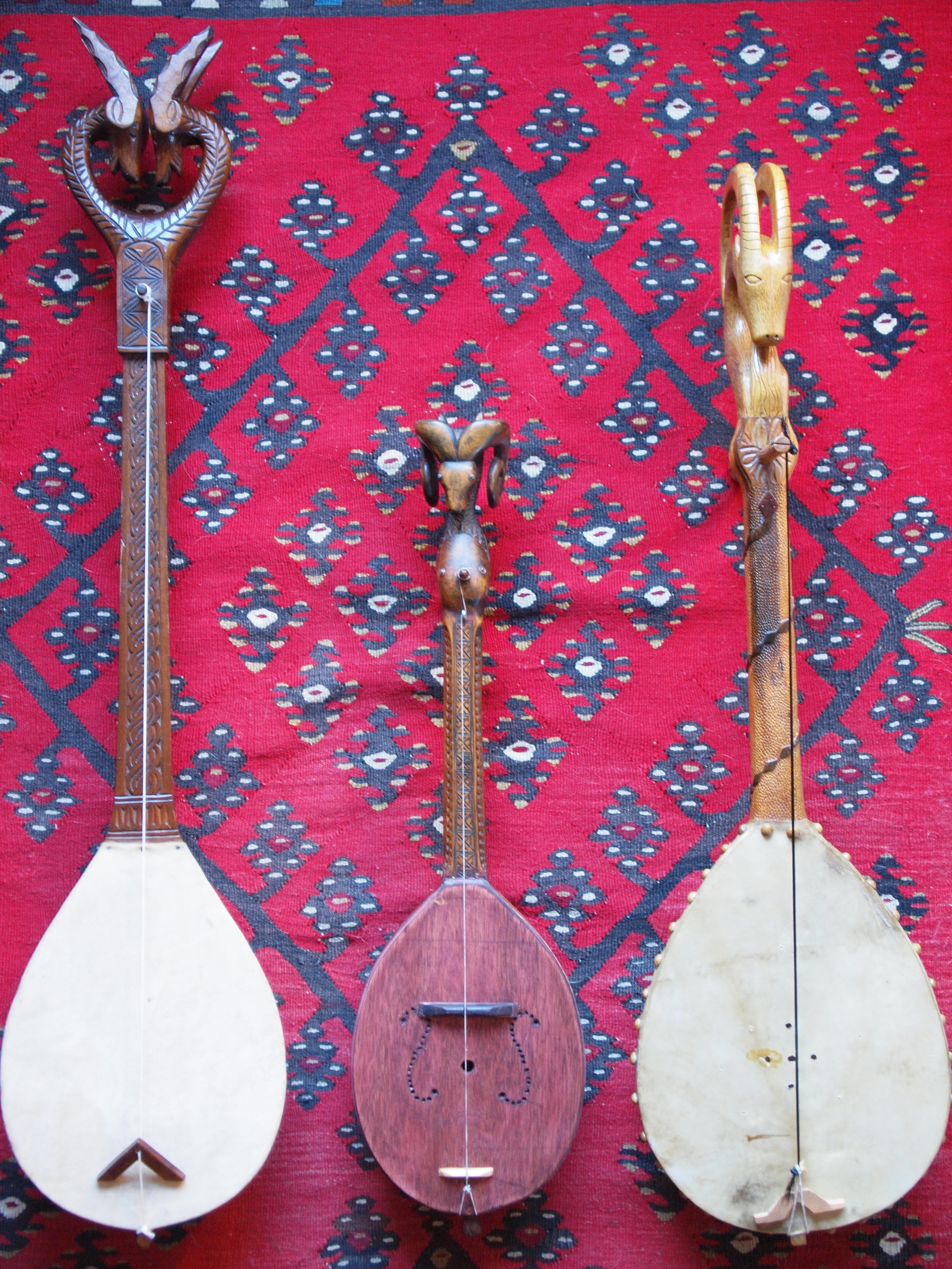 Ram head Gusle Balkans